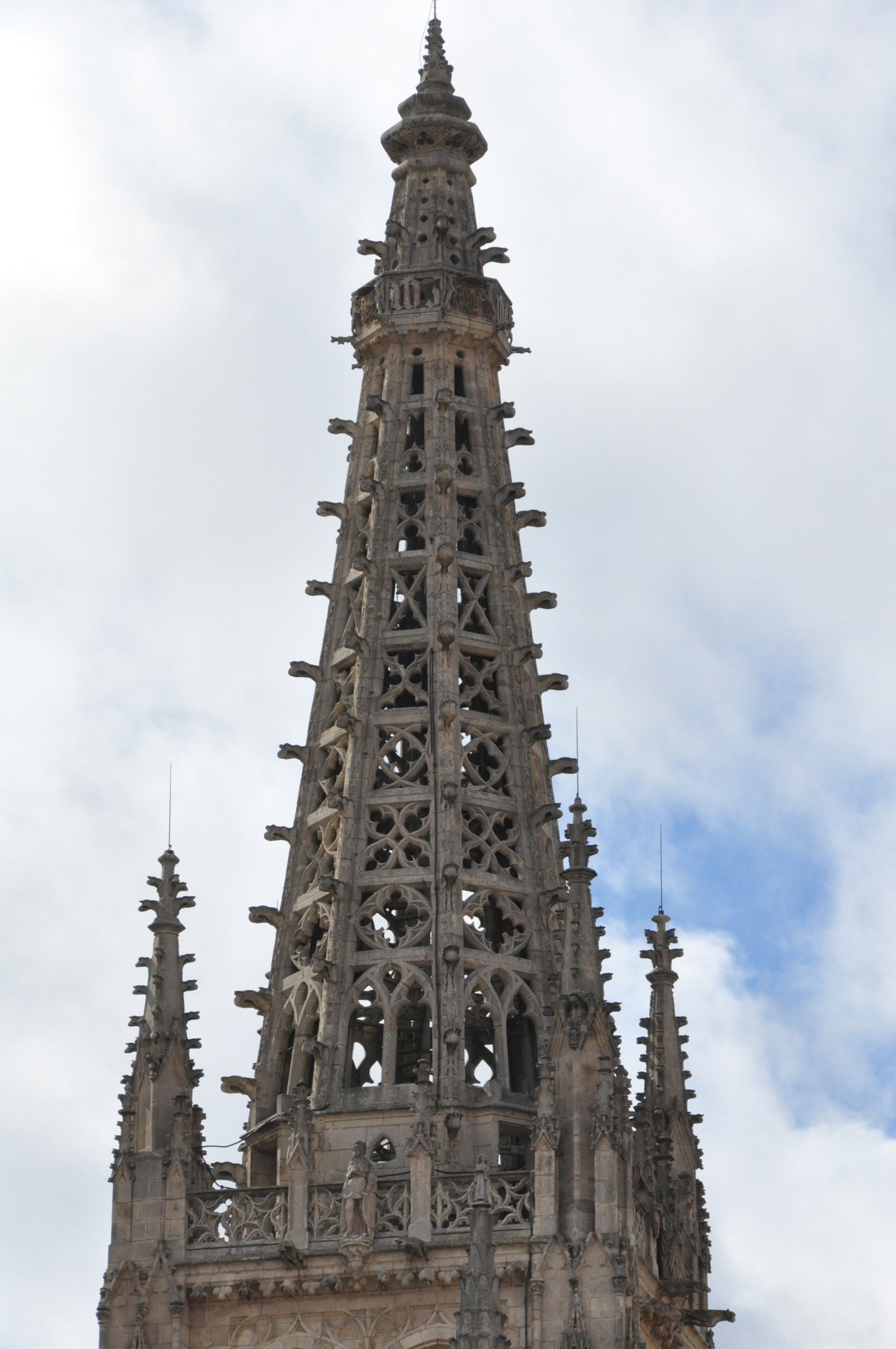 Aguja de la torre de la Catedral de Burgos construida por Juan de Colonia